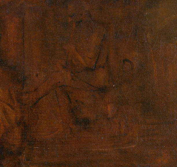 Prodigal son by Rembrandt . detail with relief of flutist